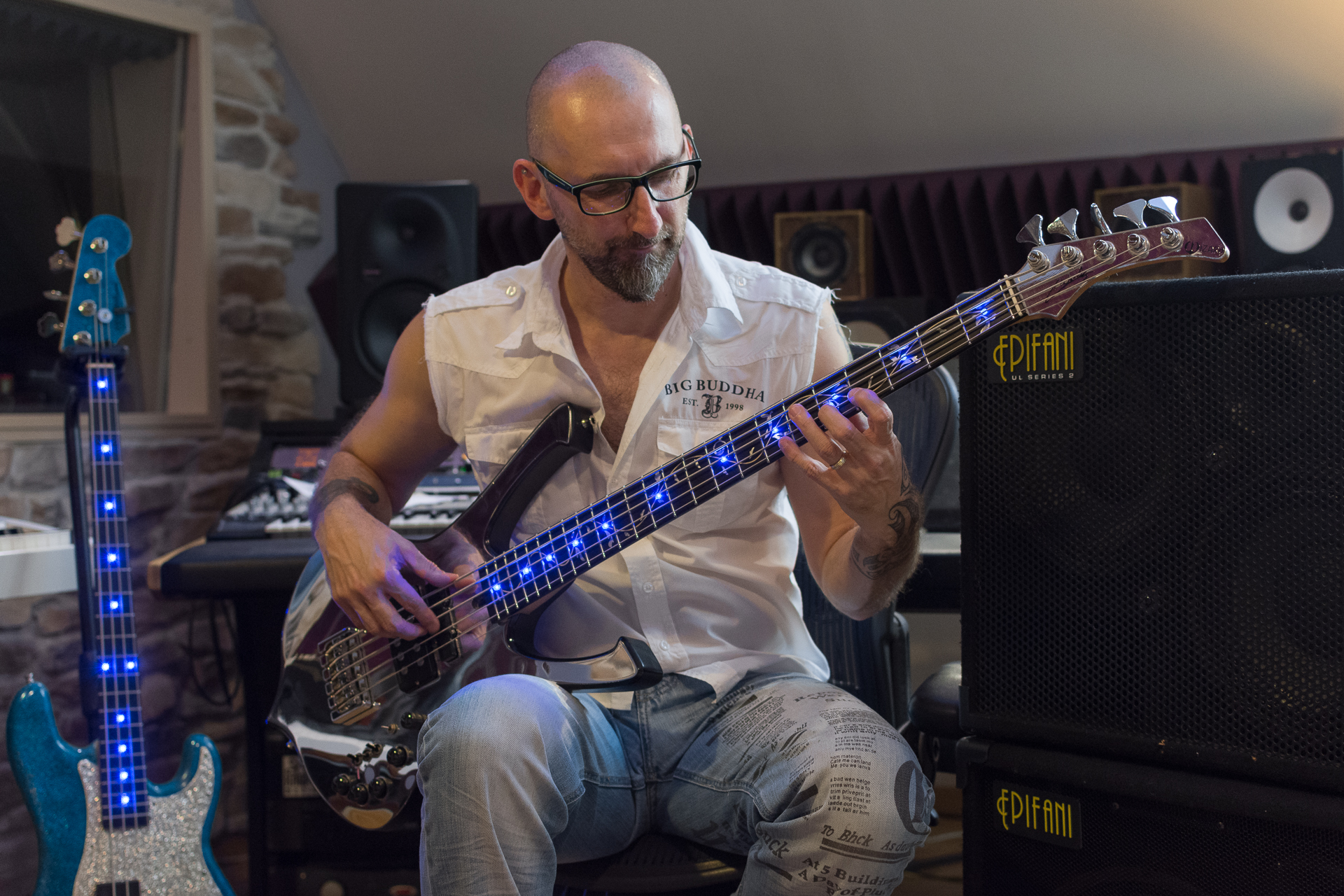 Kresimir Kastelan playing bass guitar in the Carpo Media recording studio in 2019, Zagreb, Croatia.